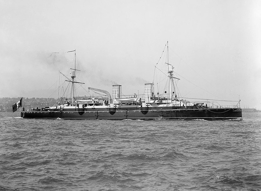 Photograph of Italian cruiser Giovanni Bausan.